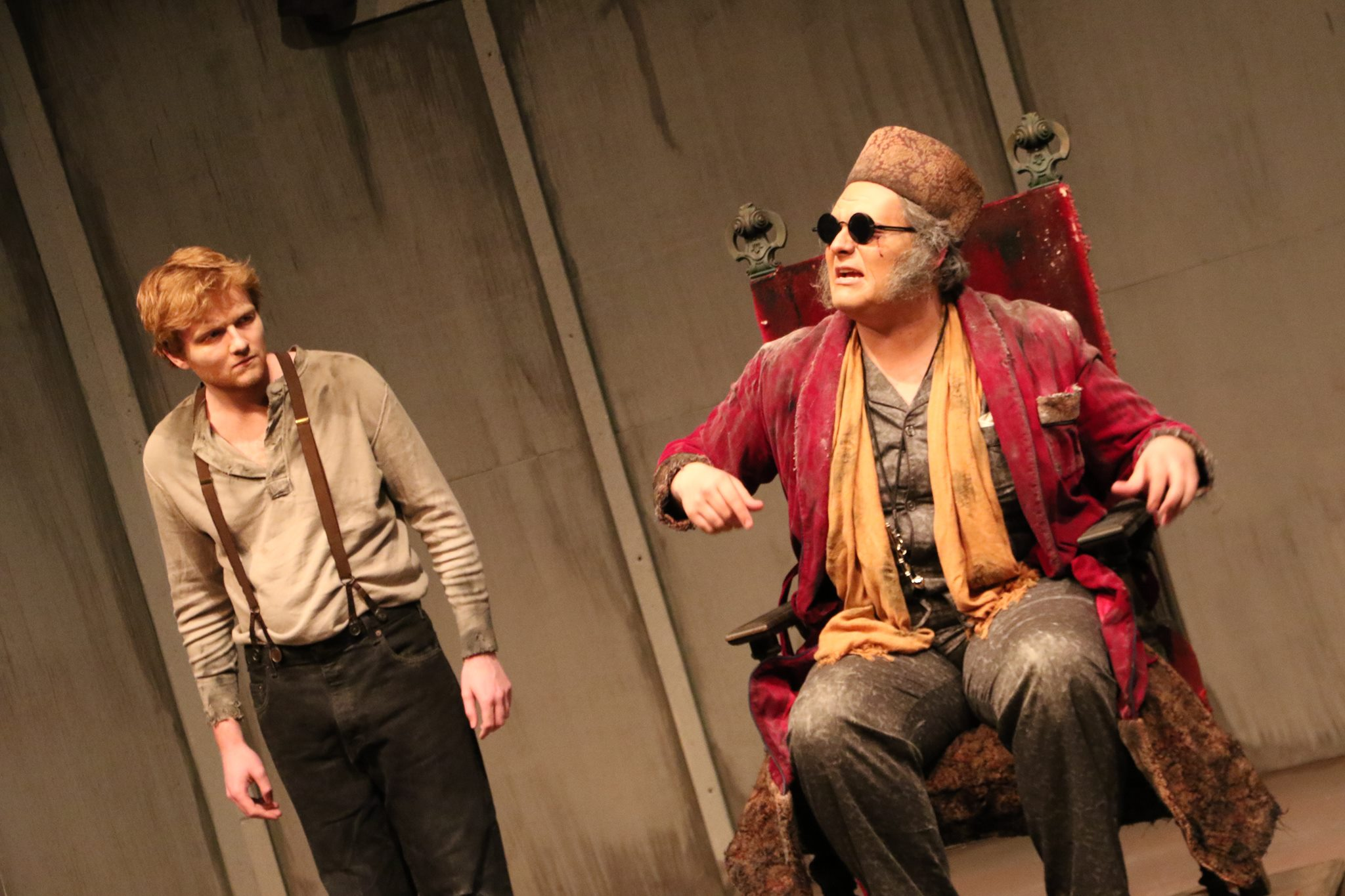 Gustavus Adolphus College production of Endgame by Samuel Beckett. Directed by Amy Seham. Actors on image: Thomas Buan and Samuel Keillor